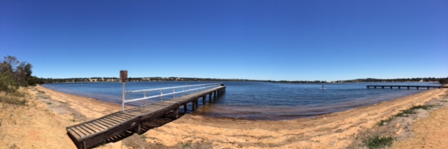 Lake Towerrinning in December 2018